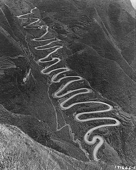 Ledo & Burma Roads. 25.822 N, 105.202 E, Qinglong, Guizhou, China. 1944-45.